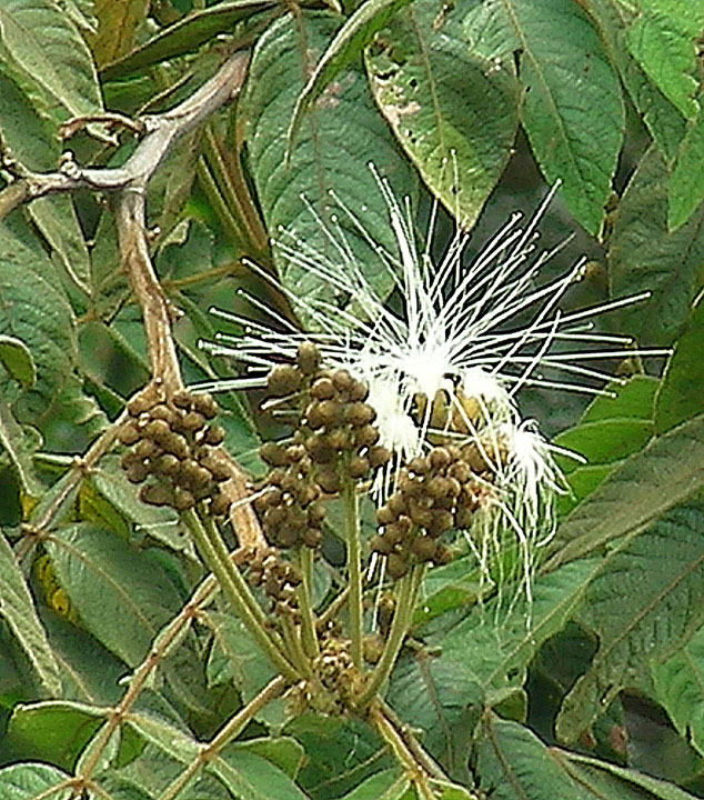 A widespread species in the Neotropics, with narcotic seeds. Photo from near Pereira, Colombia. Inga vera is also widely planted and often confused with Inga edulis. It has Icecream Beans which are shorter, however, and the seeds are used locally as a narcotic (In context).